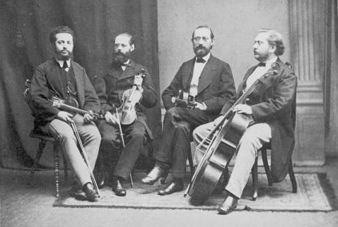 String quartet of Müller brothers (younger generation) with Leopold Auer as leader.